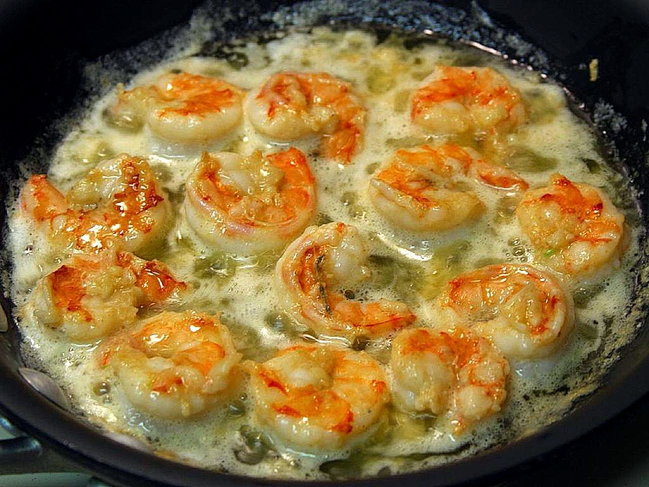 Image title: Scampi served Image from Public domain images website